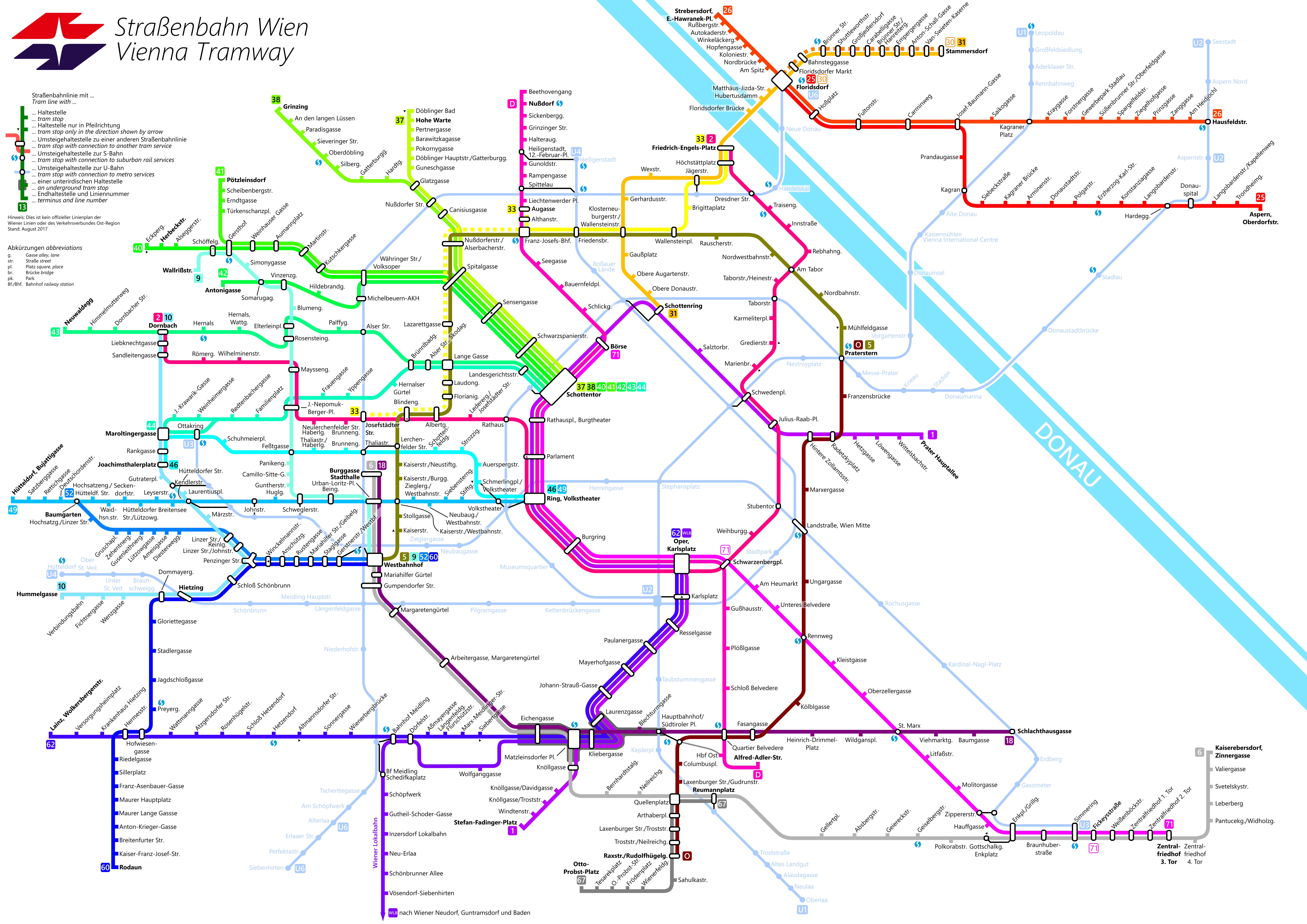 Schematic map of Vienna’s tram system as of September 2017